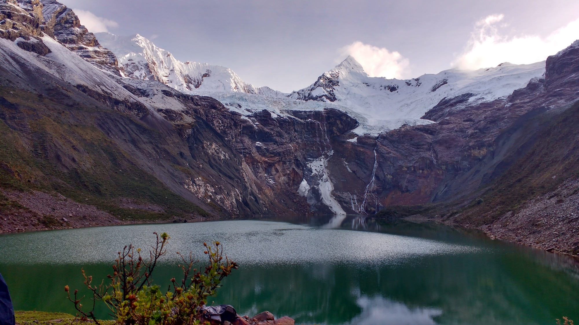 Eastern face of Tullparaju mountain, Cordillera Blanca, Central Peruvian Andes.